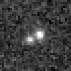 Hubble Space Telescope image of the trans-Neptunian object 385446 Manwë and its companion Thorondor, taken on 20 November 2013.